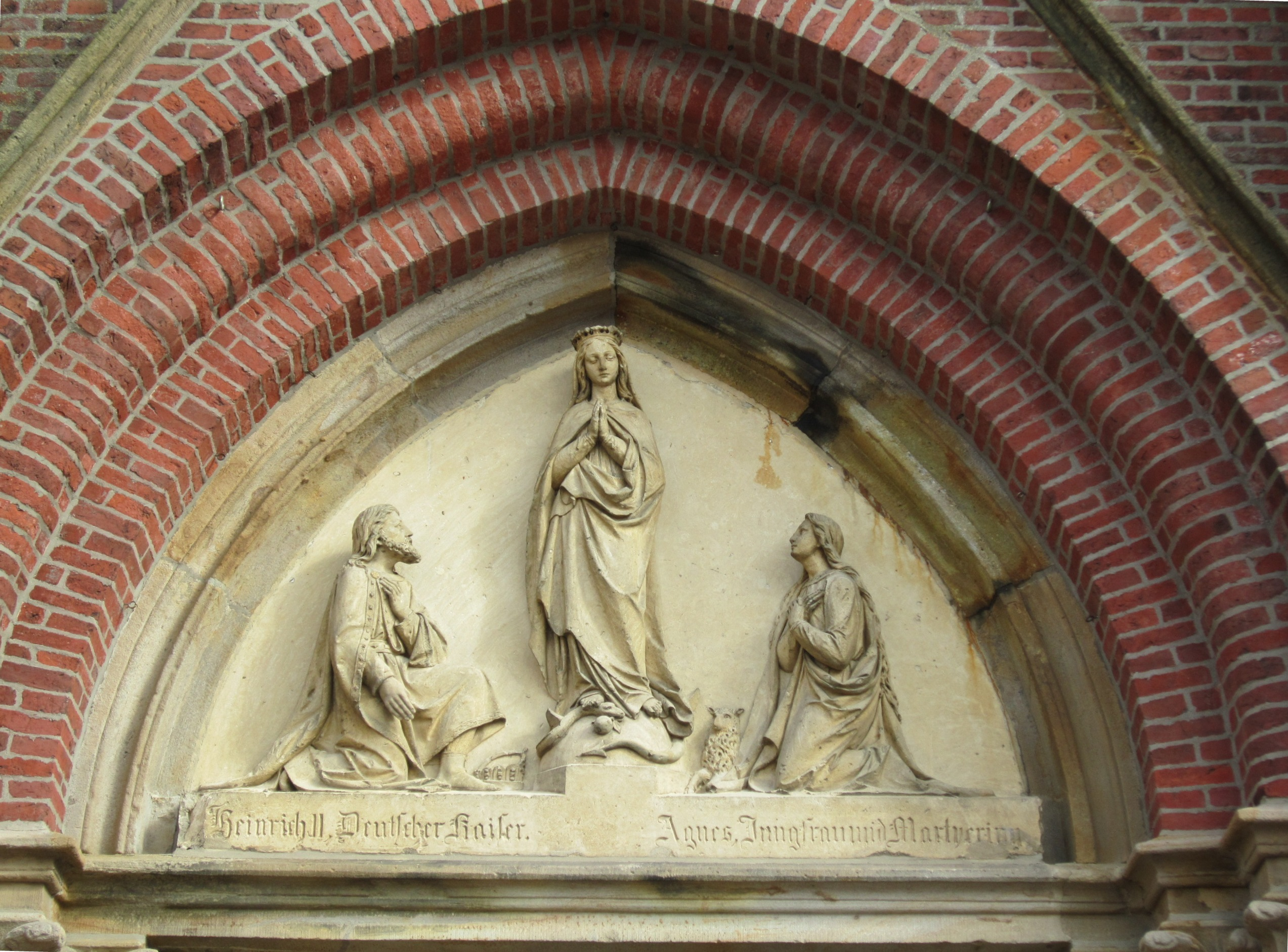 Portal of St. Marien Quakenbrück, showing Emperor Henry "II." (actually IV), St. Mary and St. Agnes of Bohemia